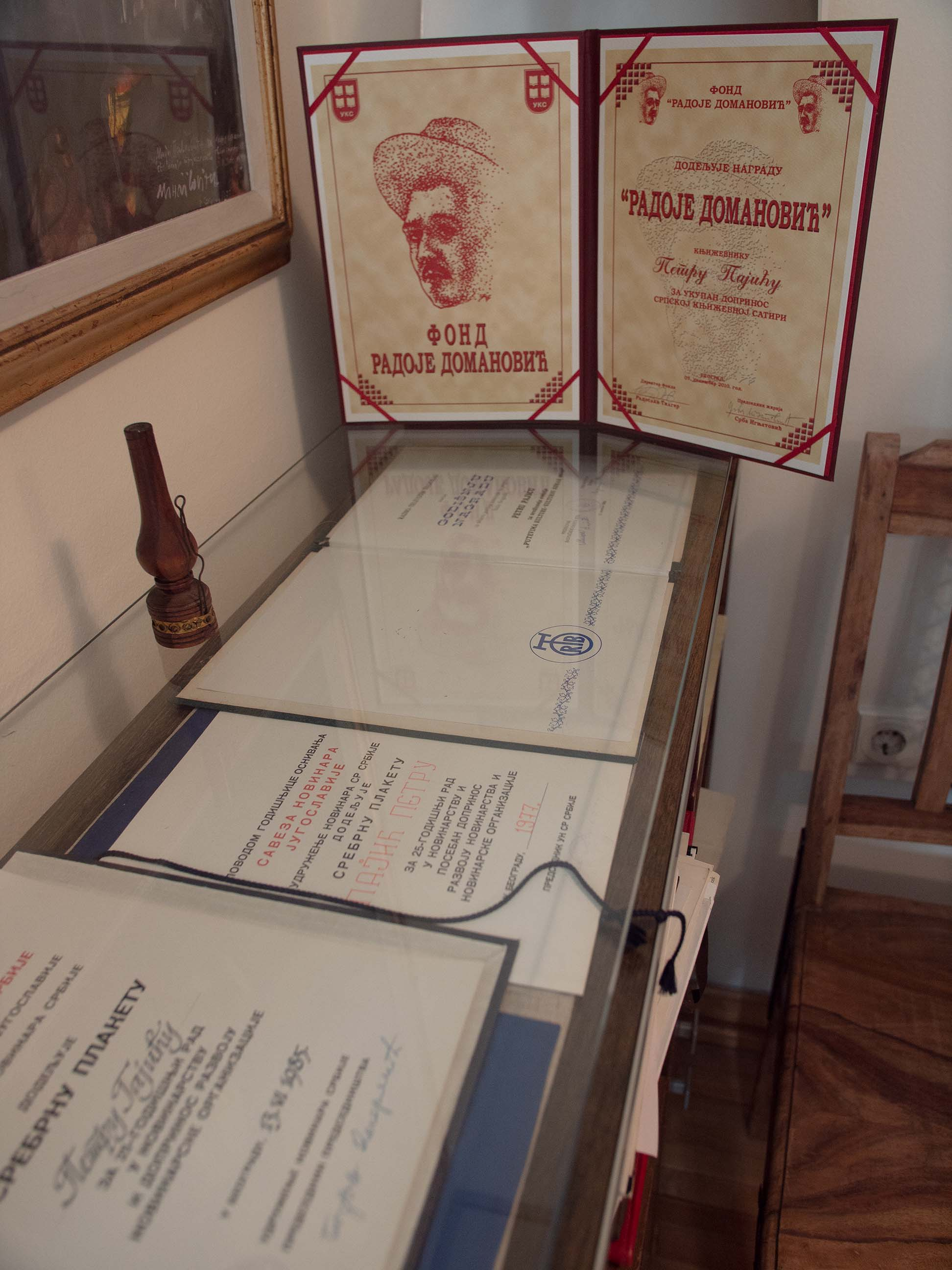 Awards won by Petar Pajic, Serbian poet and prose writer. They are a part of his legacy, which can be found in the Society for Culture, Art and International Cooperation Adligat in Belgrade, Serbia. Српски (ћирилица): Награде које је освојио Петар Пајић, српски песник и прозни писац. Међу њима је и Награда Радоја Домановића. Део су легата у Удружењу за културу, уметност и међународну сарадњу Адлигат у Београду.